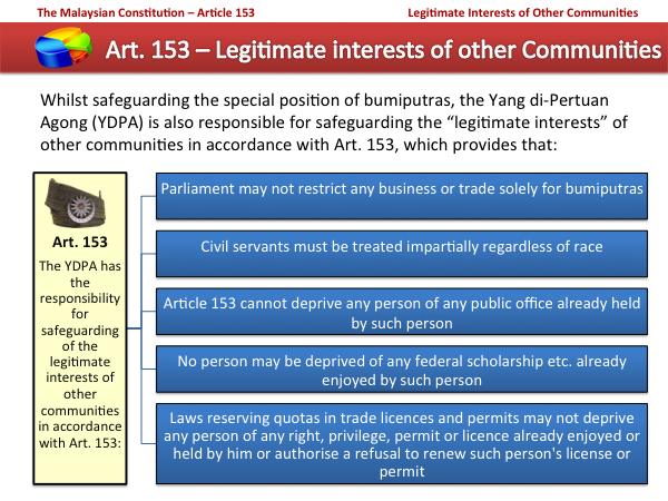 Diagram of the legitimate interests of other communities under Article 153 of the Malaysian Constitution